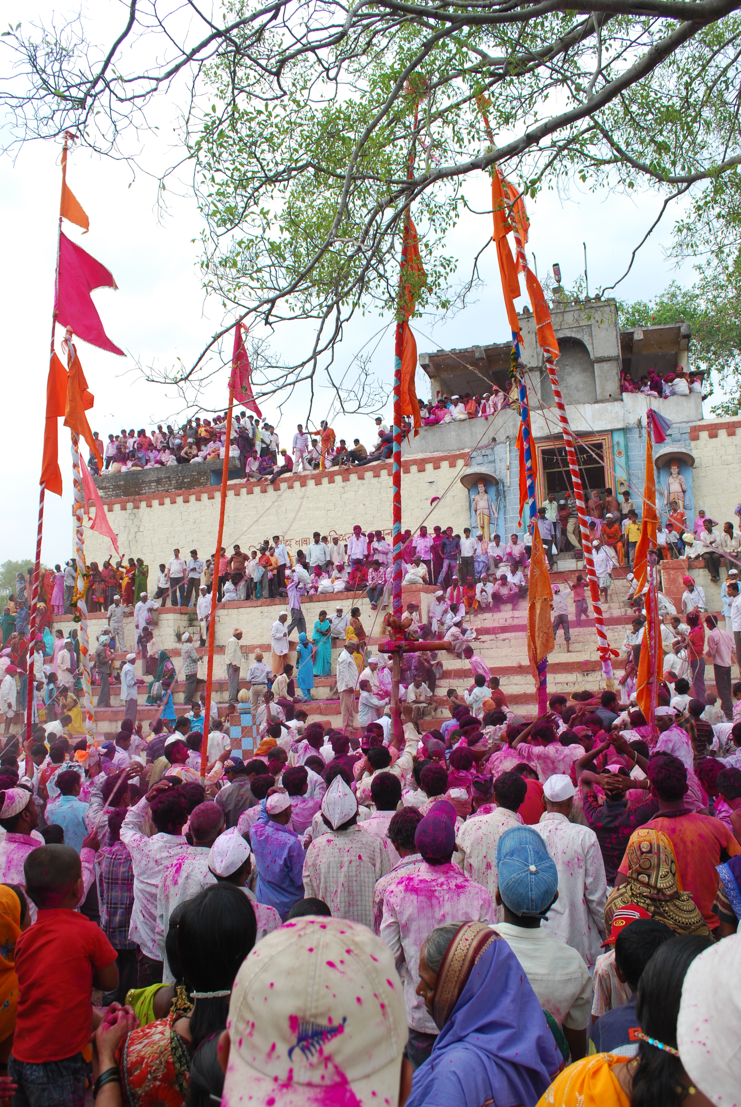 Lord Bhoodsuddhnatha yatra